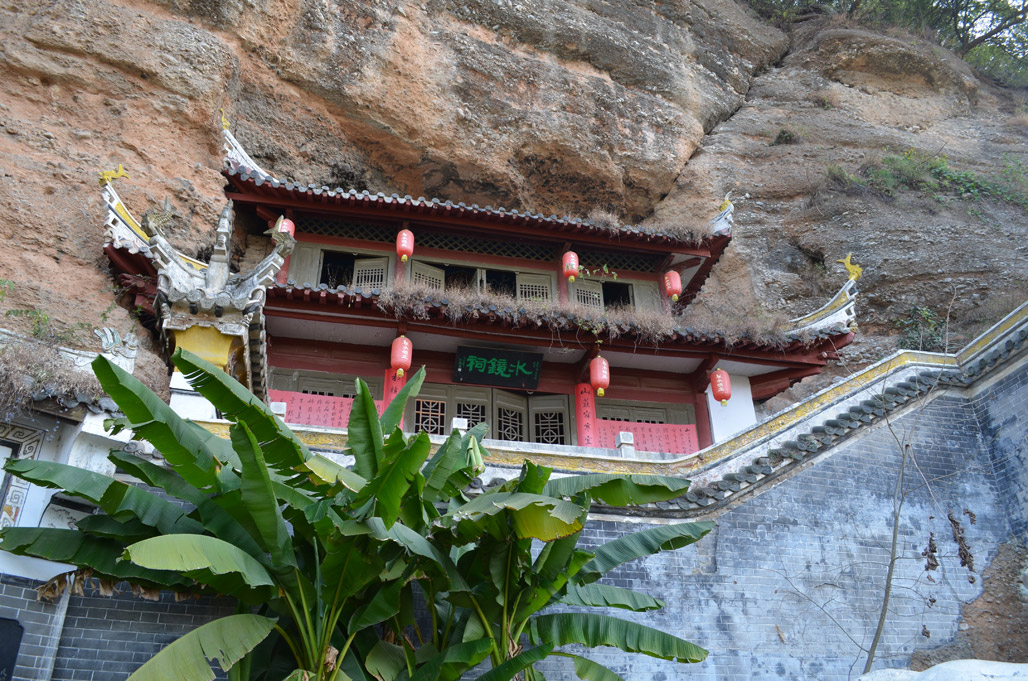 shuijingzhuang